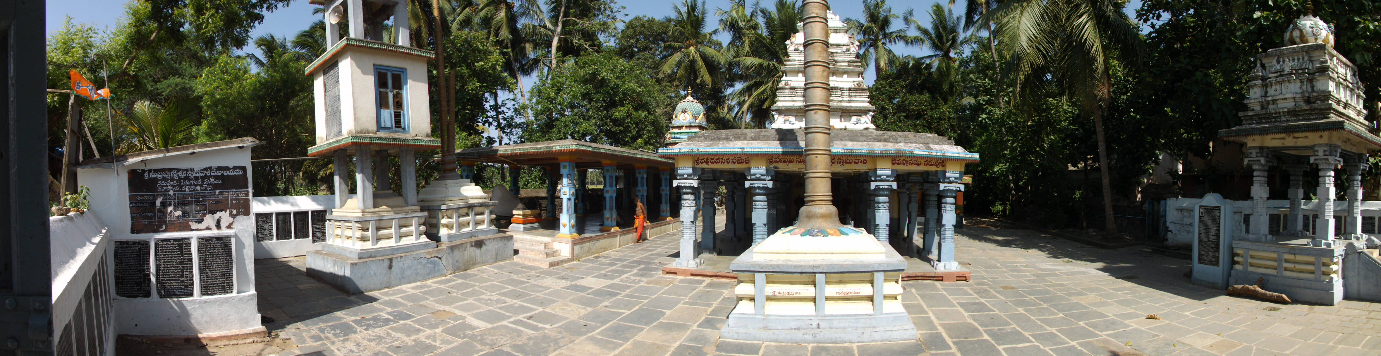 Subrahmanya Temple of A.P. VIllage Nadipudi